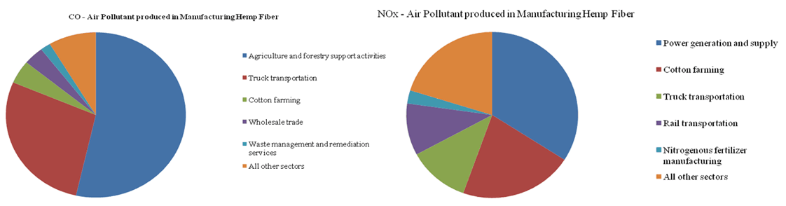 Air pollutants produced in manufacturing of hemp fiber. Diagrams for CO (carbon monoxide) and NOx (nitrogen oxides).